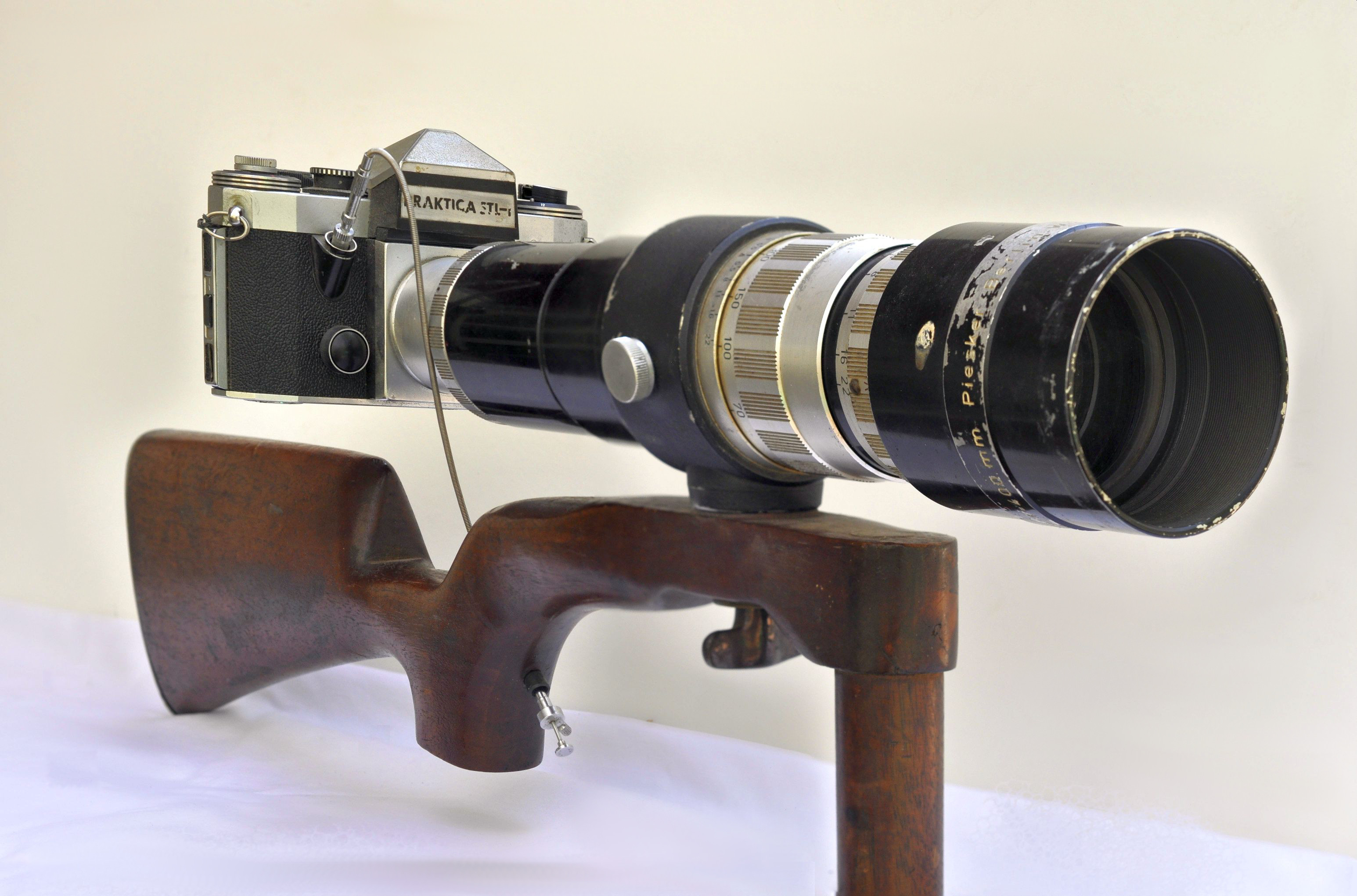 Praktica STL-1 with VOSS 400mm lens